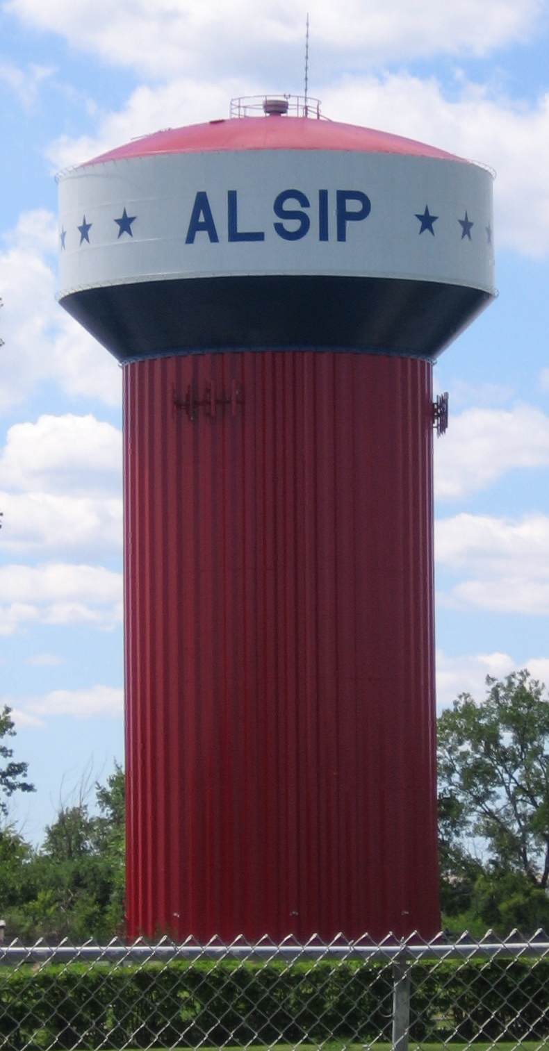 This is a photograph of one of the two municipal water towers for the village of Alsip, Illinois. It is the water tower that is in the northwest corner of the village.